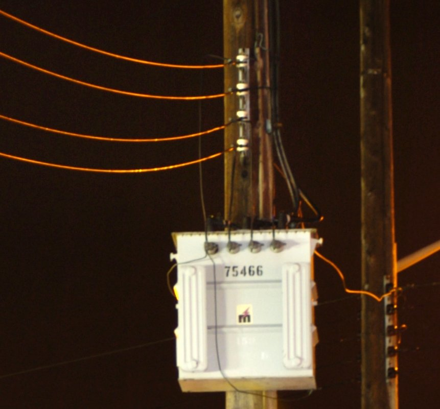 Three-phase distribution transformer on Highway 20 and King St., near the village of Stoney Creek, near Hamilton, Ontario. The four wires from the transformer supply three-phase 208V/120Y power to a row of shops. North American utility grids typically use cylindrical single-phase transformers, but these 3-phase types are coming in.